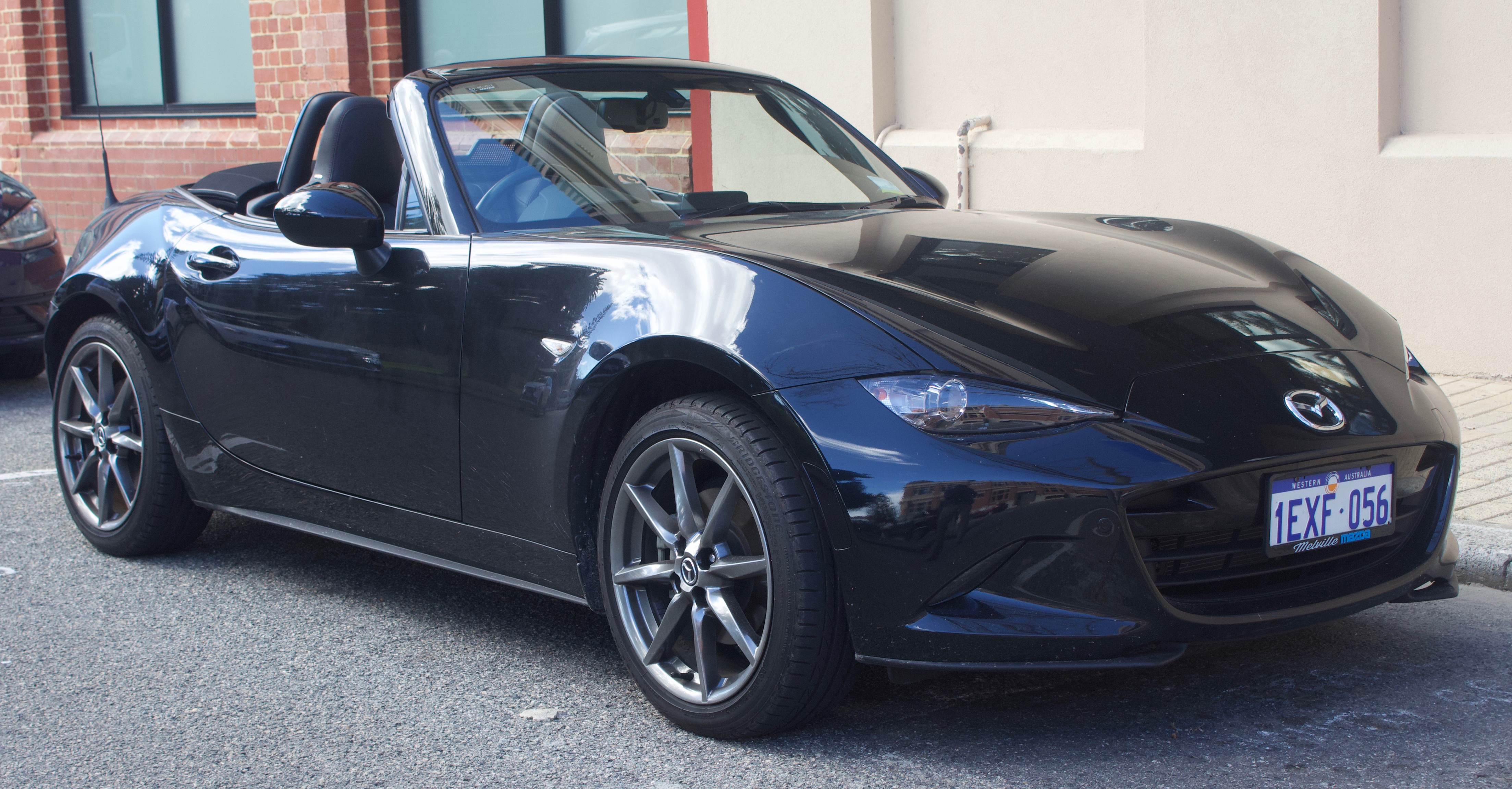 2015 Mazda MX-5 (ND) Roadster GT convertible. Photographed in Fremantle, Western Australia, Australia.